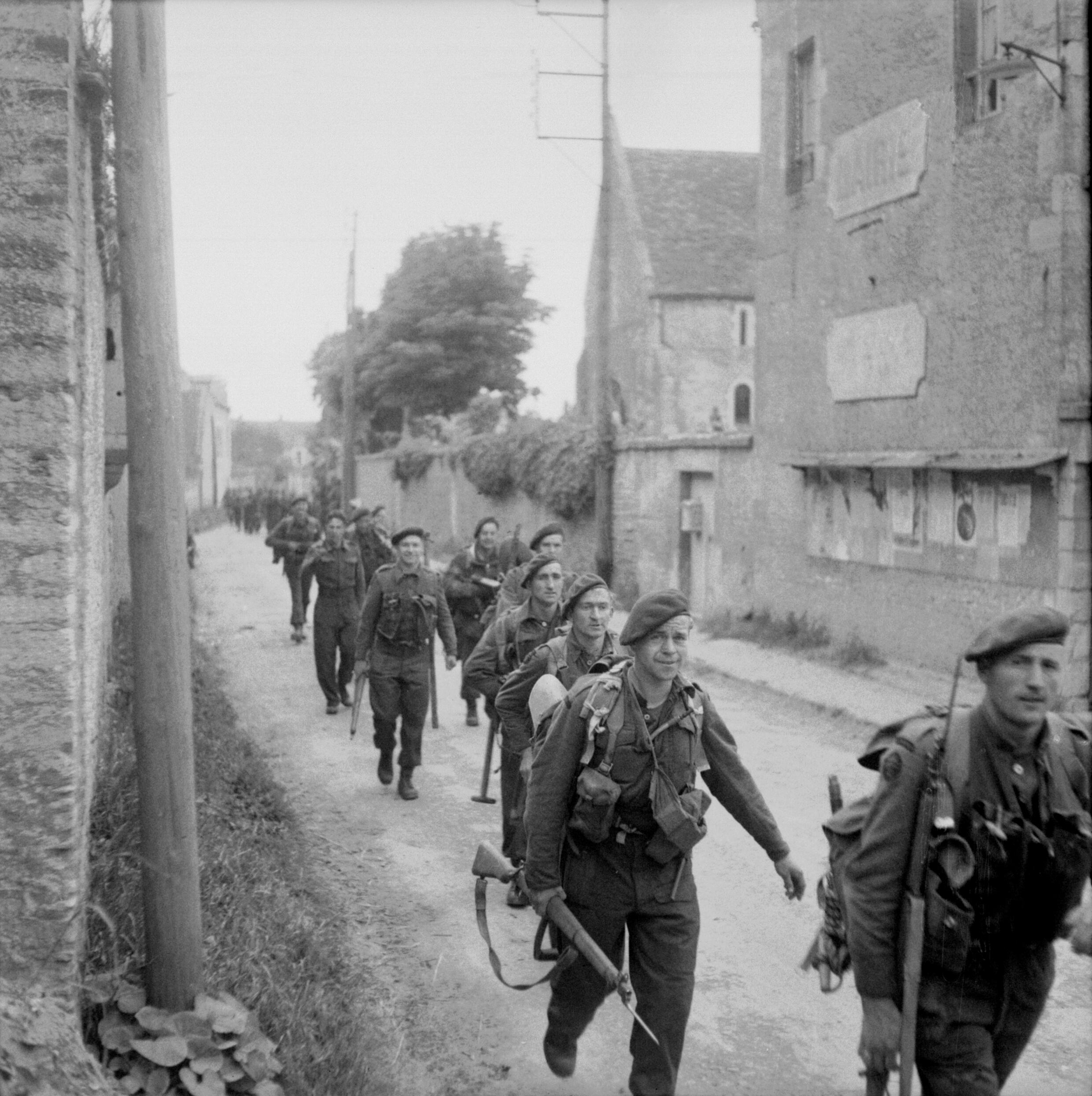 Royal Marine Commandos attached to 3rd Division for the assault on Sword Beach move through Colleville-sur-Orne on their way to relieve forces at Pegasus Bridge, Normandy, 6 June 1944. Royal Marine Commandos attached to 3rd Division for the assault on Sword Beach move through Colleville-sur-Orne on their way to relieve forces at Pegasus Bridge, 6 June 1944.